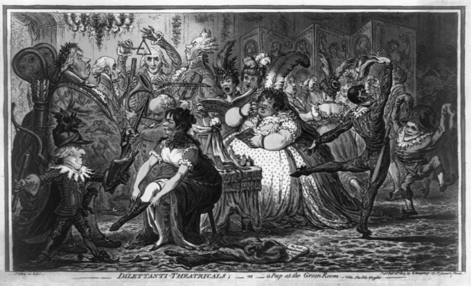 Title: Dilettanti-theatricals:--or--a peep at the Green Room.--vide, Pic-Nic-Orgies-- Abstract: "A crowded scene, the amateurs of the Pic Nic Society are dressing and rehearsing..." (Source: George) Physical description: 1 print : engraving, colour. Notes: Forms part of: British Cartoon Prints Collection (Library of Congress).; This record contains unverified data from George.; Js. Gillray, inv. & fect.